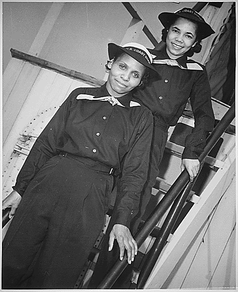 Two Negro SPARS pause on the ladder of the dry-land ship `U.S.S. Neversail' during their `boot' training at the U.S. Coast Guard Training Station, Manhattan Beach, Brooklyn, NY. They are recent enlistees and have the ratings of apprentice seamen. In front is SPAR Olivia Hooker and behind her is SPAR Aileen Anita Cooks.